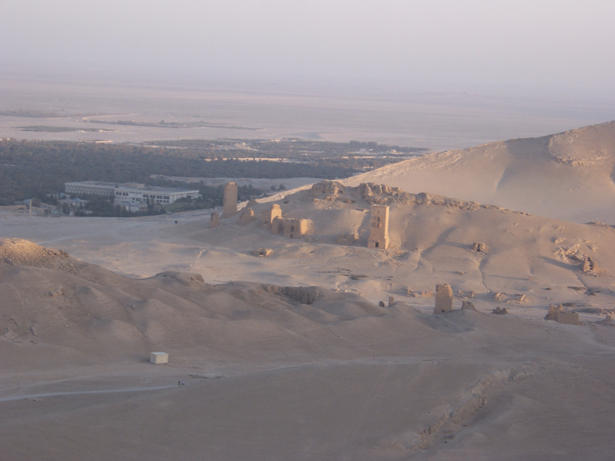 Palmyra (/ˌpælˈmaɪərə/; Arabic: تدمر; Tadmur; Aramaic: ܬܕܡܘܪܬܐ; Hebrew: תַּדְמוֹר, Modern Tadmor Tiberian Taḏmôr; Ancient Greek: Παλμύρα) was an ancient Aramaic city in central Syria. In antiquity, it was an important city located in an oasis 215 km (134 mi) northeast of Damascus and 180 km (110 mi) southwest of the Euphrates at Deir ez-Zor. It had long been a vital caravan stop for travellers crossing the Syrian desert and was known as the Bride of the Desert. The earliest documented reference to the city by its Semitic name Tadmor, Tadmur or Tudmur (which means "the town that repels" in Amorite and "the indomitable town" in Aramaic) is recorded in Babylonian tablets found in Mari.